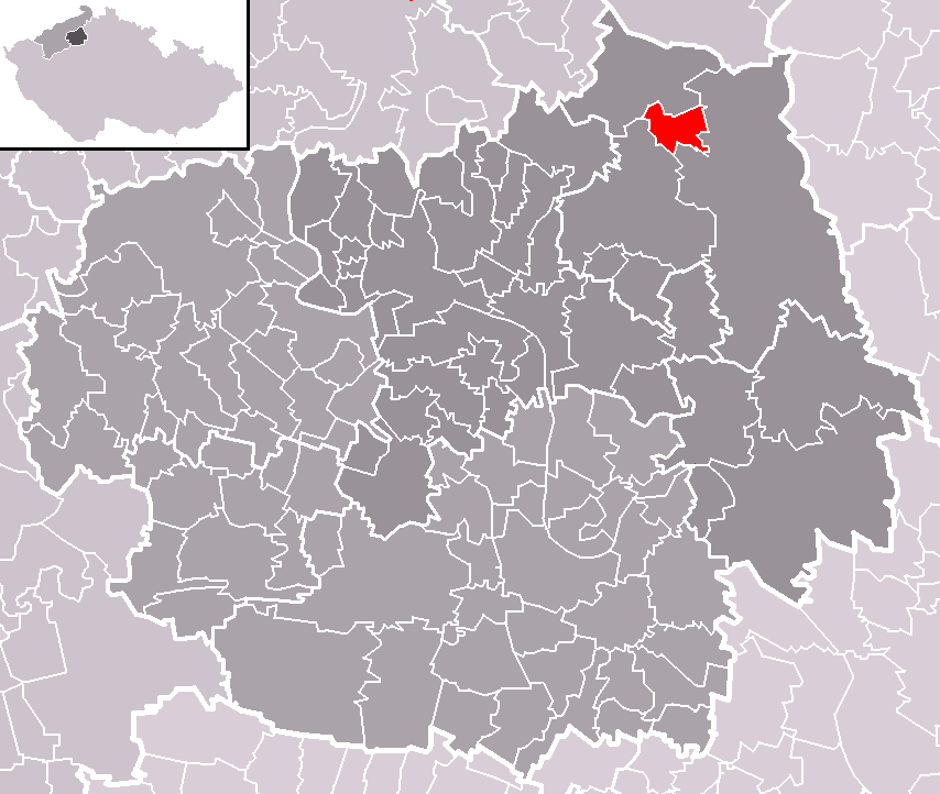 Location of Levín municipality within Litoměřice District and administrative area of Litoměřice as a Municipality with Extended Competence.